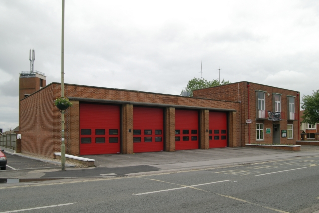 Didcot fire station